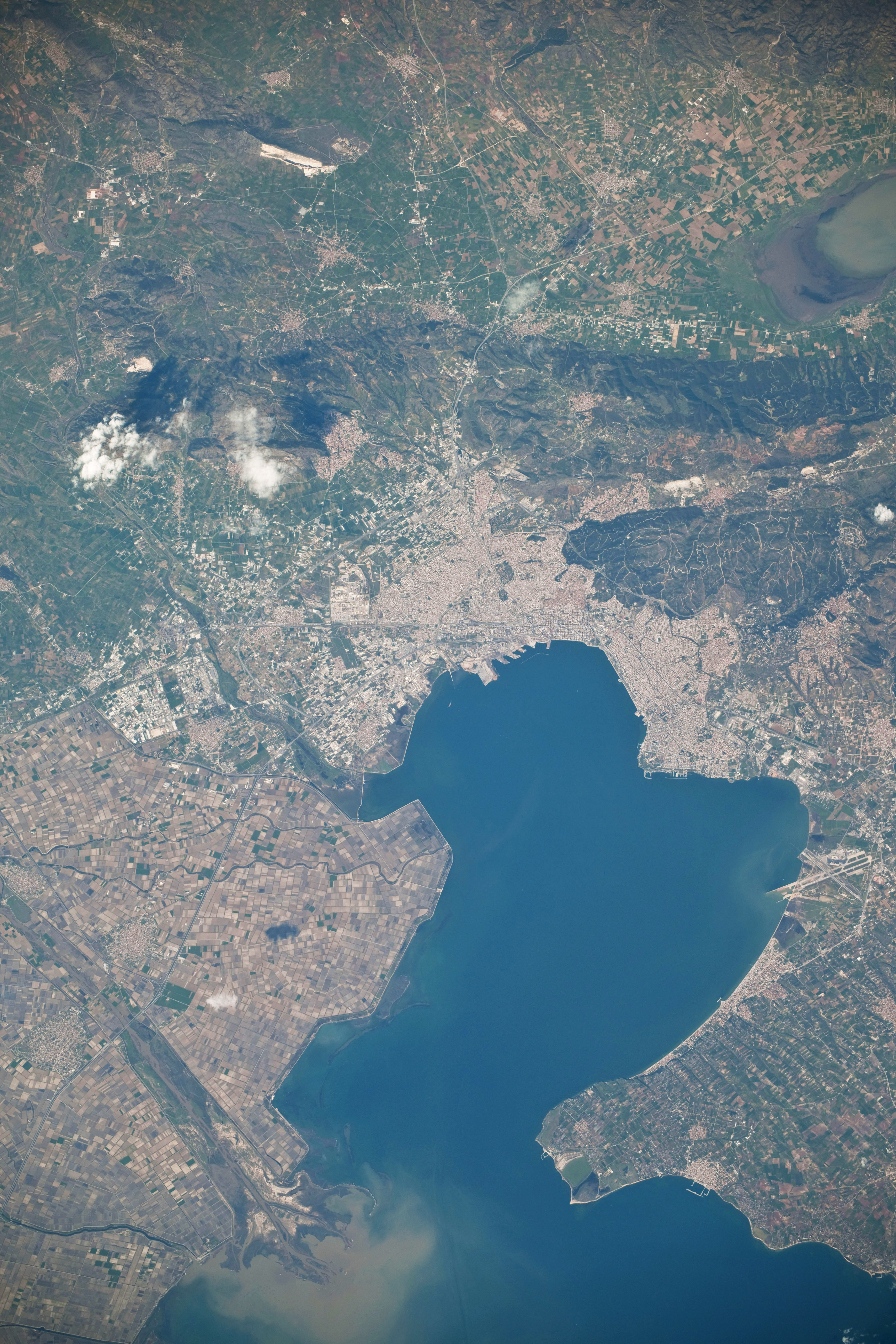 Gulf of Thessaloniki and the Vardar River mouth 20100331 (YYYYMMDD)GMT Time: 131120 (HHMMSS) Nadir Point Latitude: 38.6, Longitude: 23.7 (Negative numbers indicate south for latitude and west for longitude) Nadir to Photo Center Direction: North Sun Azimuth: 237 (Clockwise angle in degrees from north to the sun measured at the nadir point) Spacecraft Altitude: 182 nautical miles (337 km) Sun Elevation Angle: 40 (Angle in degrees between the horizon and the sun, measured at the nadir point) Orbit Number: 1123